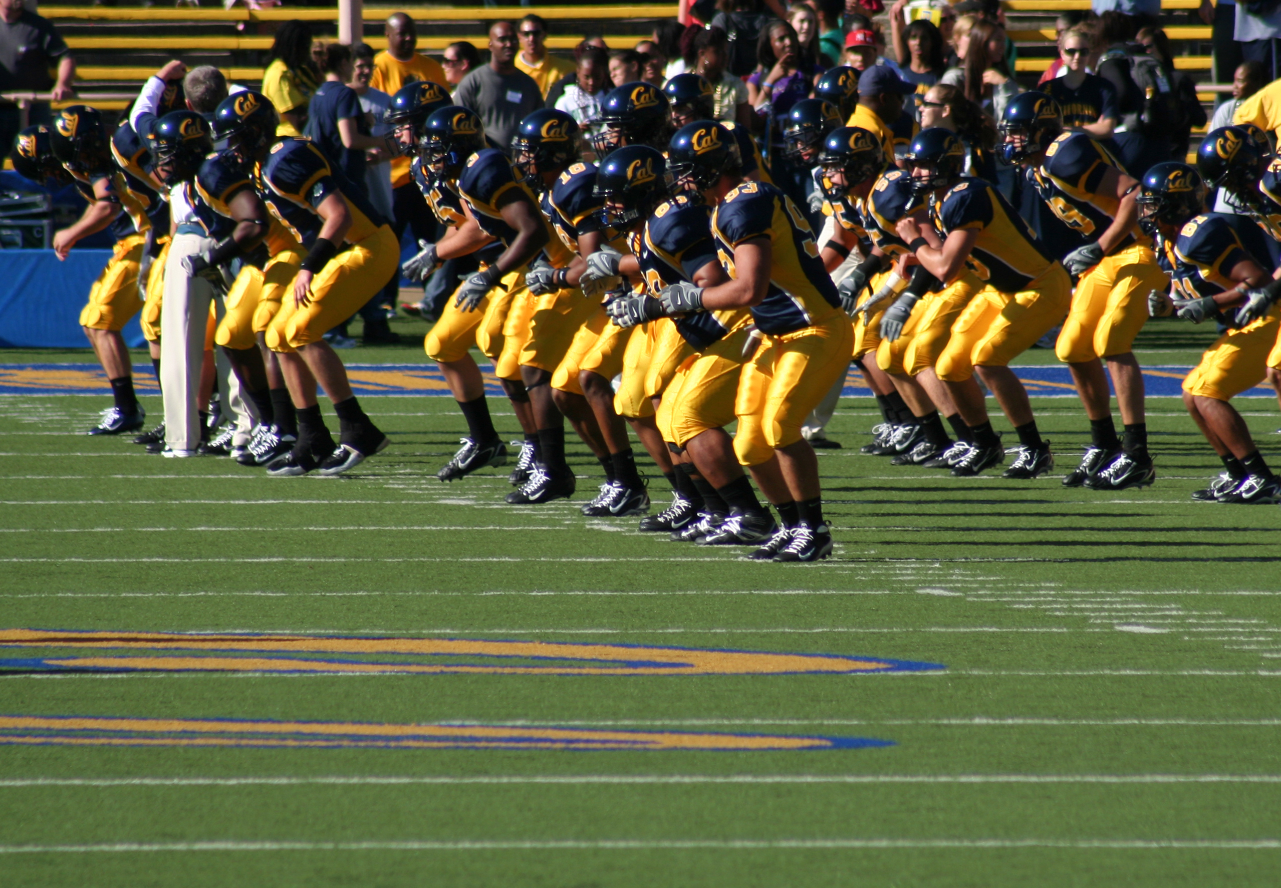 Oregon State Beavers at California Golden Bears at California.